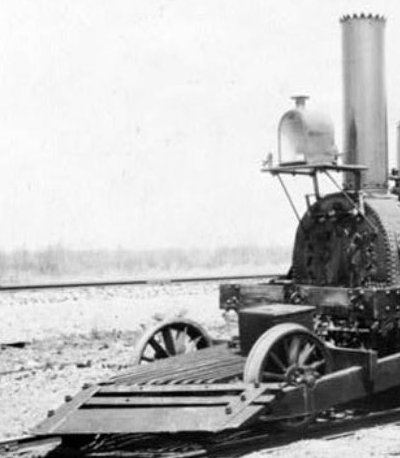 Close-up of cowcatcher on the "John Bull" locomotive